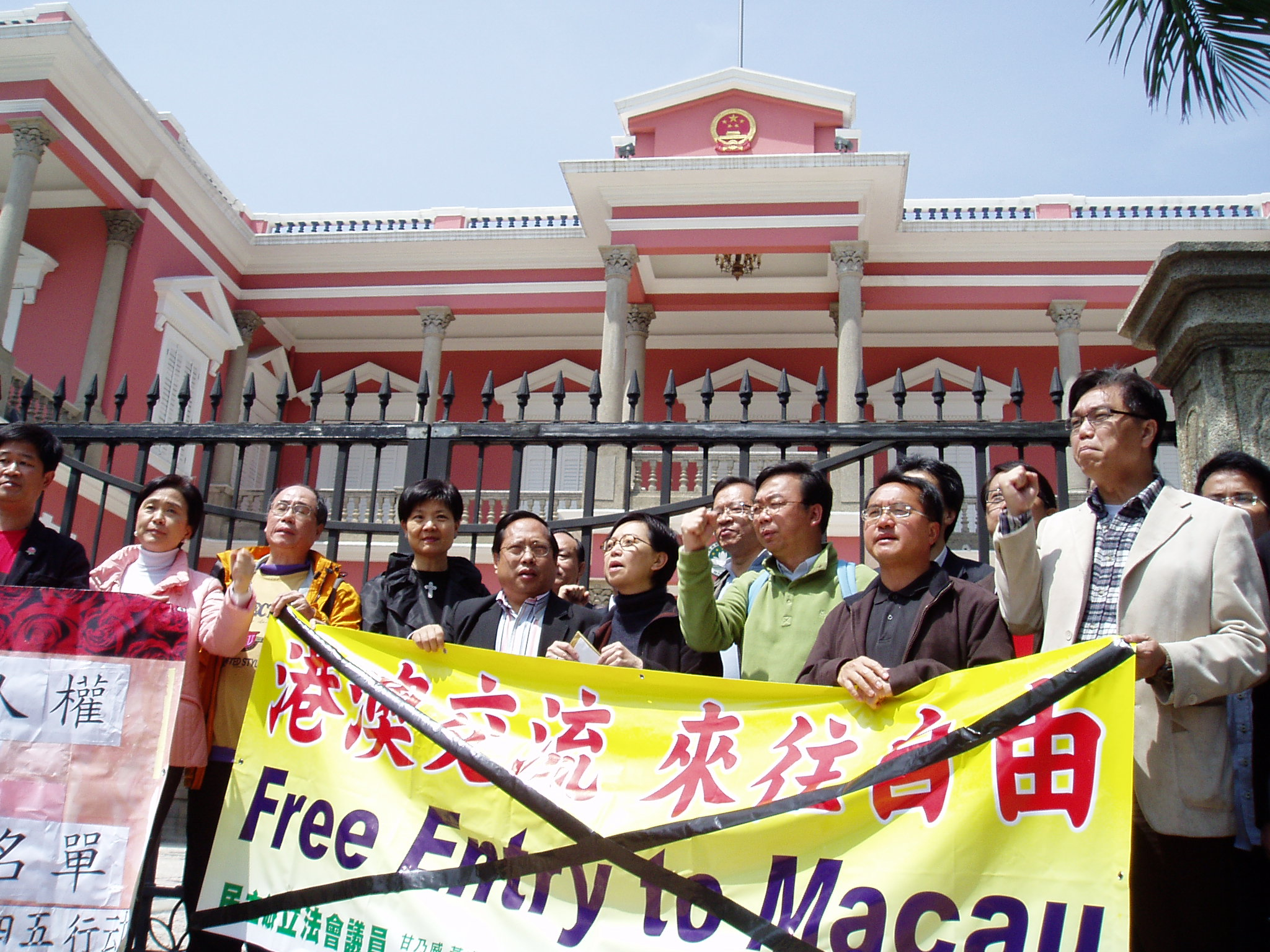 Pan-democratic campaigners from Hong Kong demonstrate before Macau's government building over the latter's previous refusal to allow entry to 5 Hong Kong Legco members deemed to be unwelcome.